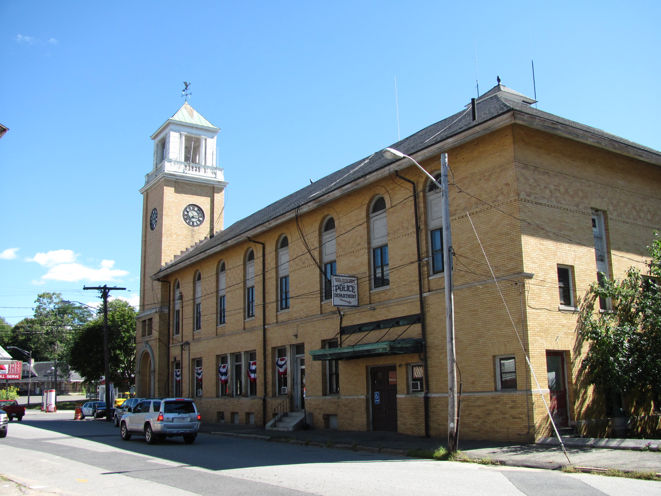 Warren Town Hall, Warren Massachusetts